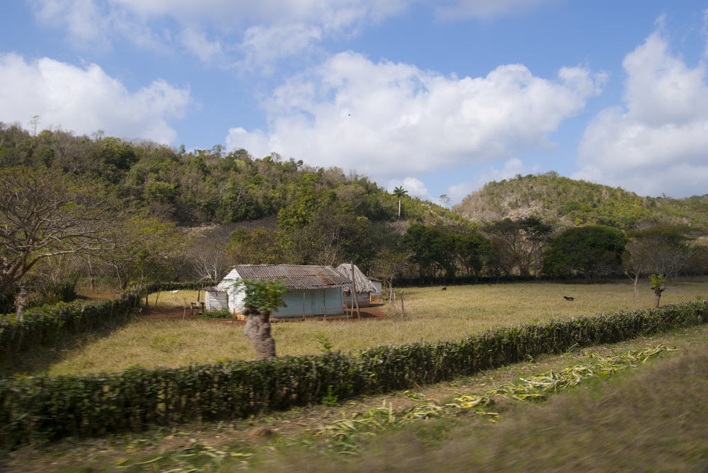 Linked Mogote formations of the Sierra de Bamburanao (mountains) — in the Yaguajay Municipality of Sancti Spíritus Province, central Cuba. Wooden house and field.